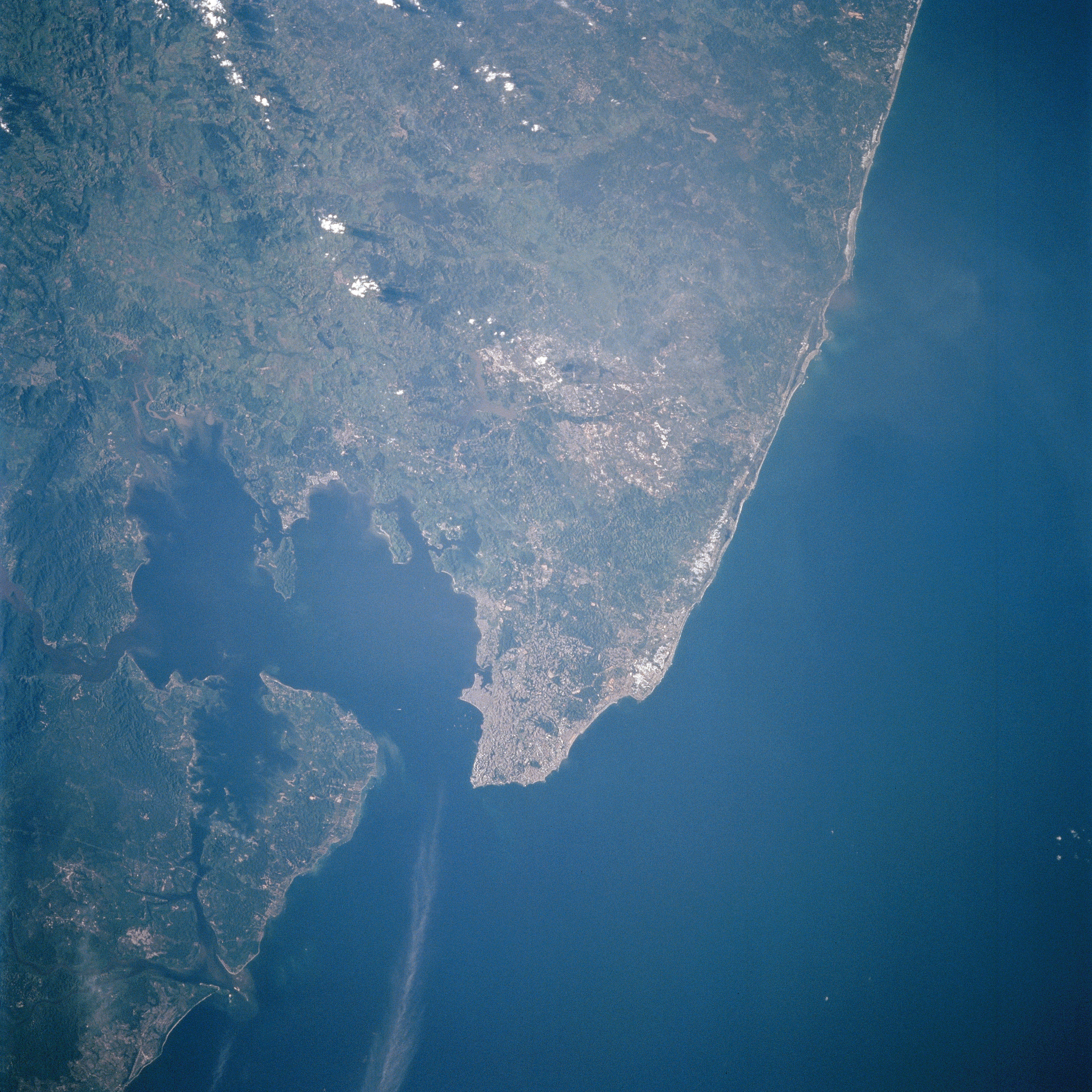 NM23-721-551 Salvador, All Saints Bay, Brazil Winter/Spring 1997 The first formally established settlement in Brazil, the city of Salvador, is located on the tip of the peninsula. All Saints Bay, an inlet of the Atlantic Ocean, provides a protected harbor to the city. Salvador is divided into an upper city, which is built along a cliff overlooking the bay, and a lower city, which extends from the foot of the cliff westward to the bay. The upper and lower cities are connected by elevators, cable cars, and graded roads. Salvador is the commercial center of the Reconcavo, a major agricultural area, and a major shipping center for the Cacao district to the south. Food processing is one of the leading industries in the city. Salvador is also a leading and fashionable tourist center. Because of an influx of black African slaves, the area is noted for its African heritage in music, dance, folk customs, and cuisine. The lighter tan-colored region to the north-northeast of Salvador is a major oil field.